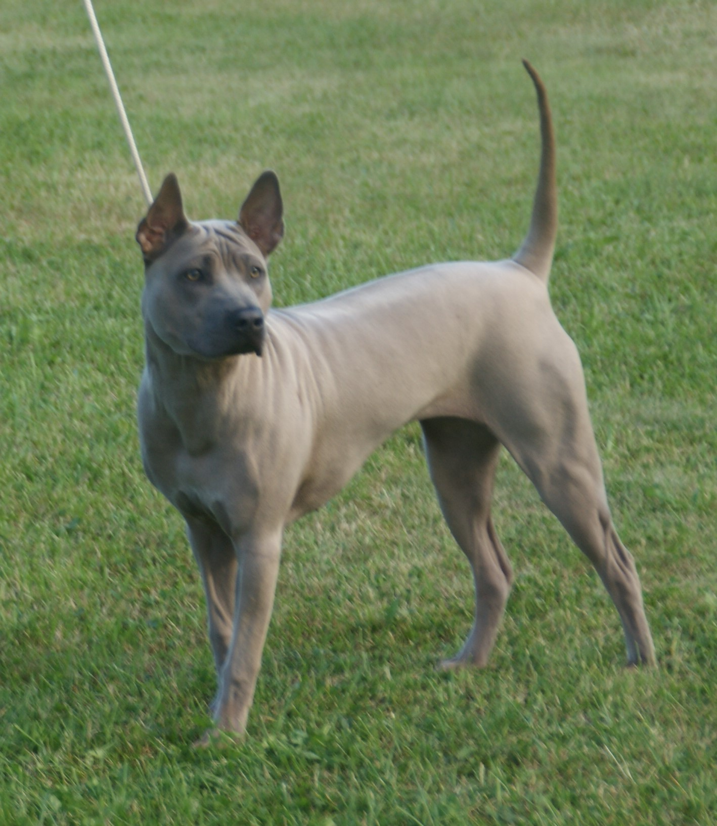 Thai Ridgeback, fawn, female.